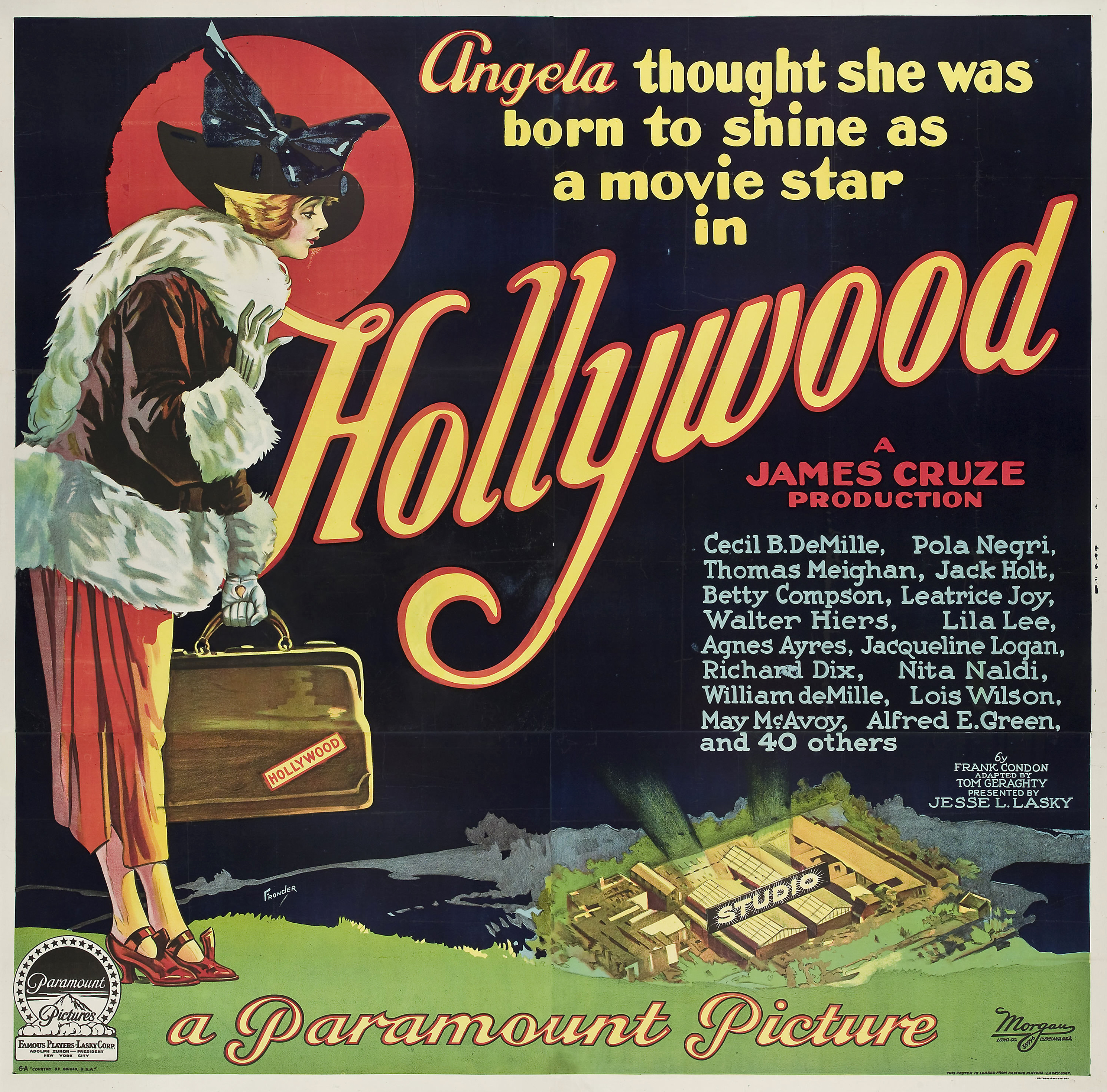 Poster for the 1923 film, Hollywood with Hope Drown as Angela.